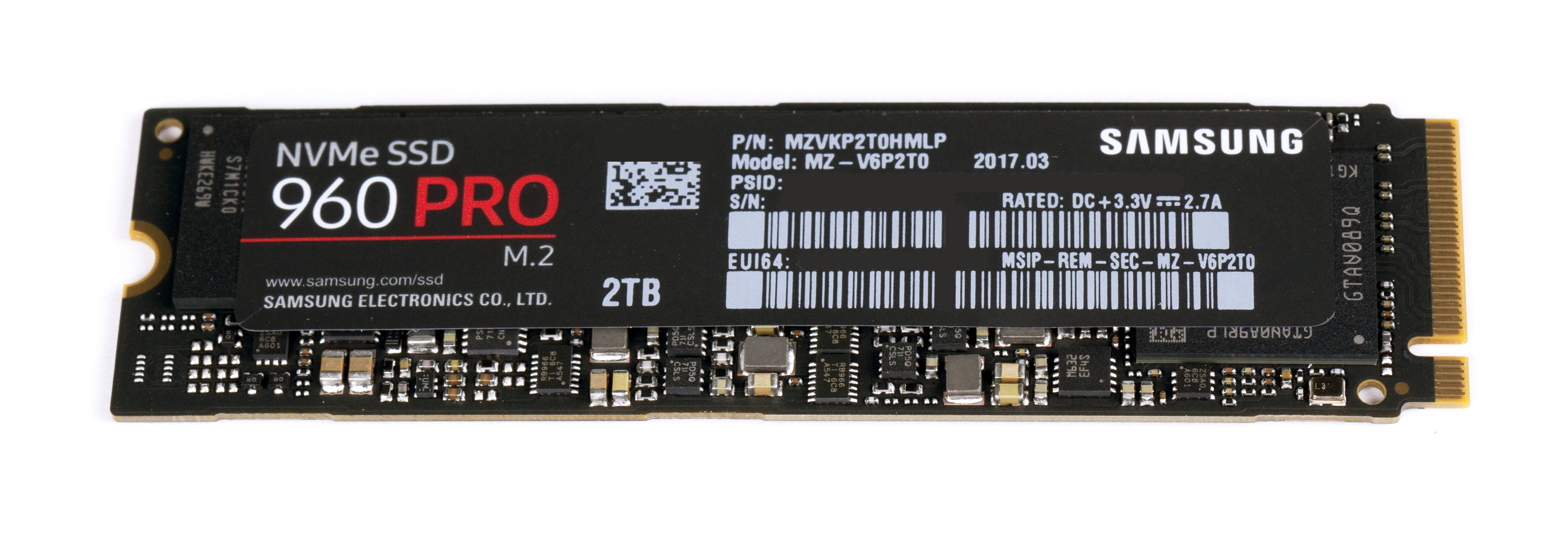 Samsung 960 Pro — NVMe solid-state drive, M.2 2280 form-factor.